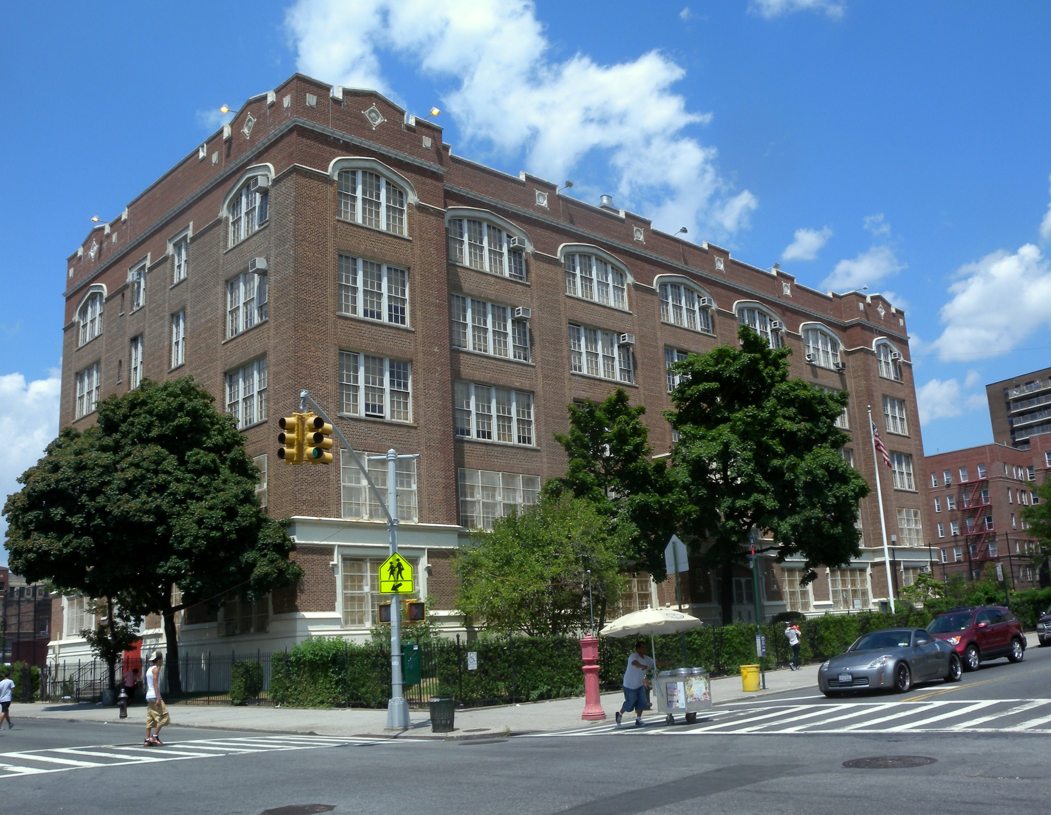 Looking north across Crotona Avenue and 180th Street at PS 57 Crescent School on a sunny late morning.